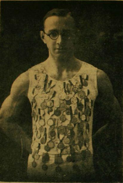 Harald/Harold Alfred Rosenqvist (1897–), athlete from Chile, hurdles winner in 1919 South American Championships in Athletics and 1920 South American Championships in Athletics.